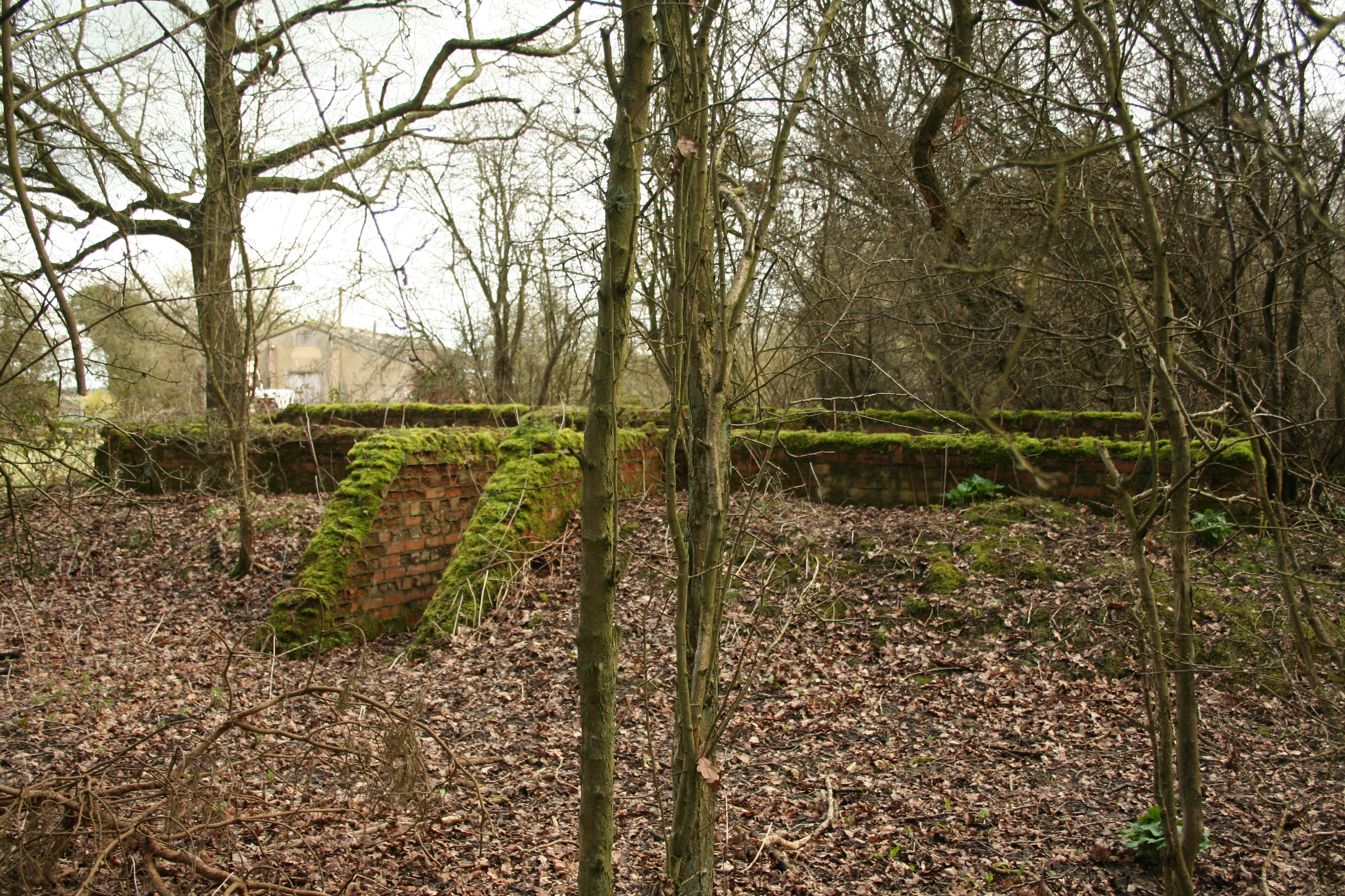 RAF Finmere Communal Site RAF Finmere Communal Site blast shelter.